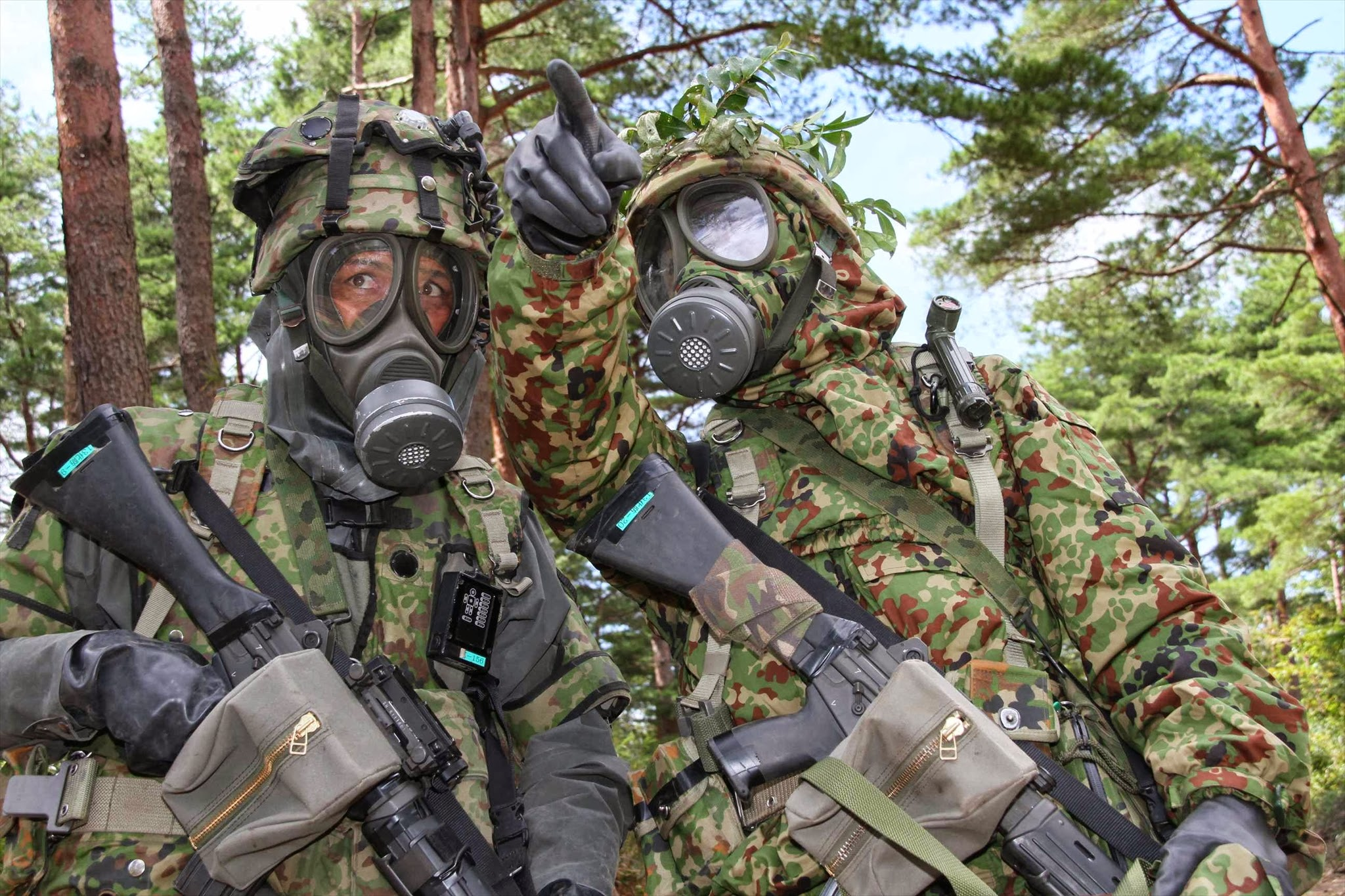 Title IMG_9714.JPG Album 教育訓練等 訓練検閲（第１３化学防護隊・海田市）